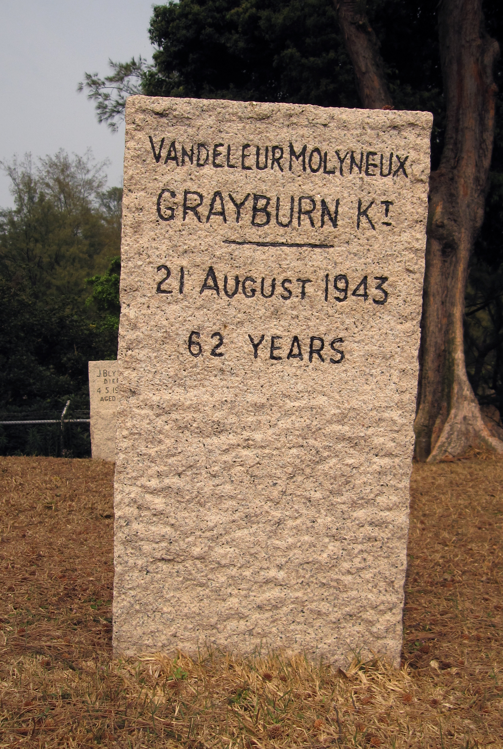 The headstone of Sir V. M. Grayburn, J.P. (1881 - 1943), Chief Manager of the Hongkong and Shanghai Banking Coporation, located in Stanley Military Cemetery